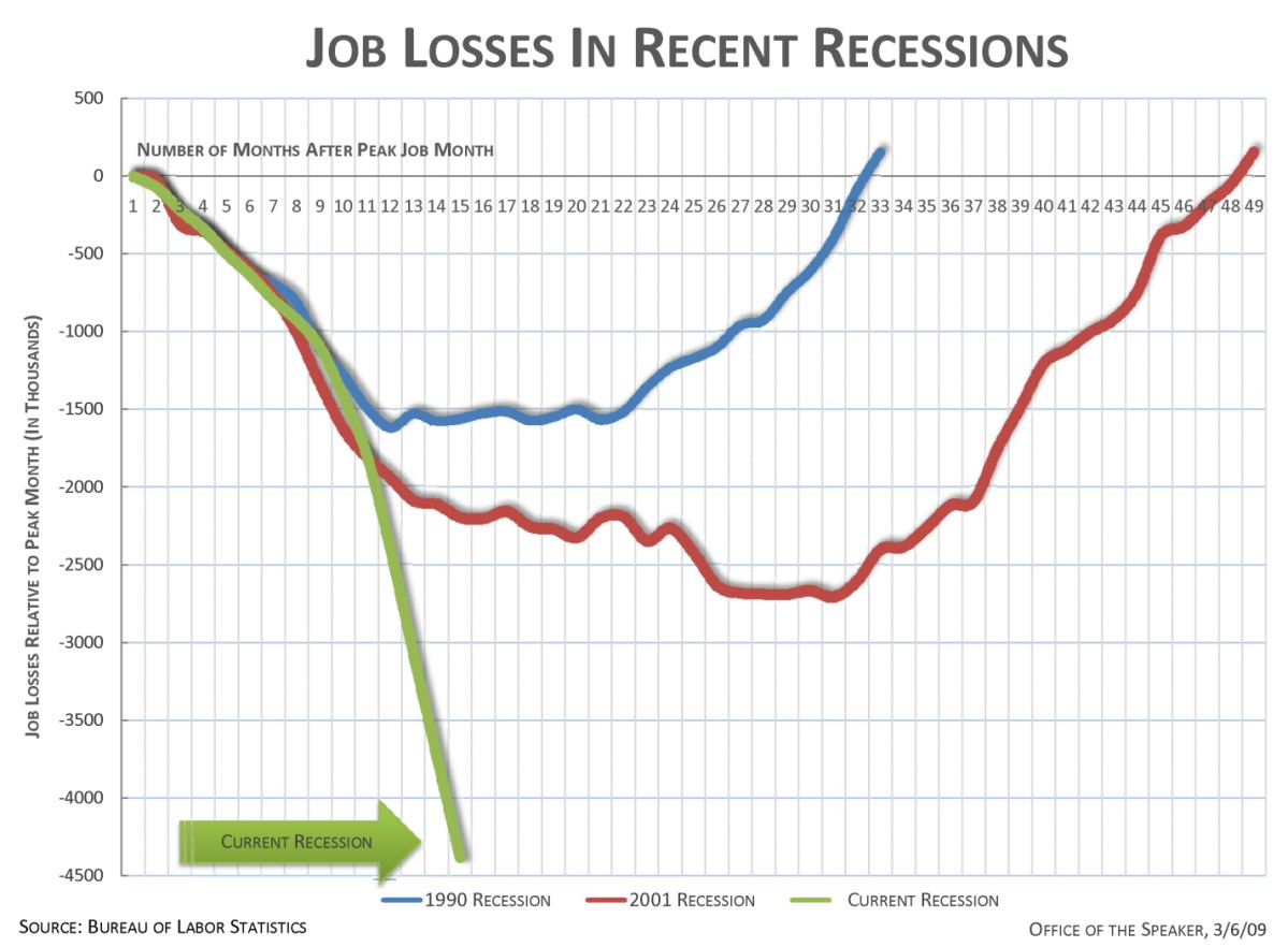 Today, the Labor Department released statistics showing that 651,000 American jobs were lost in the month of February, with the unemployment rate rising to 8.1 percent, the worst since December 1983. This chart compares the job loss so far in this recession to job losses in the 1990-1991 recession and the 2001 recession – showing how dramatic and unprecedented the job loss over the last 14 months has been. Over the last 14 months, our economy has lost a total of 4.4 million jobs – and continuing job losses in the next few months are predicted. By comparison, we lost a total of 1.6 million jobs in the 1990-1991 recession, before the economy began turning around and jobs began increasing; and we lost a total of 2.7 million jobs in the 2001 recession, before the economy began turning around and jobs began increasing.